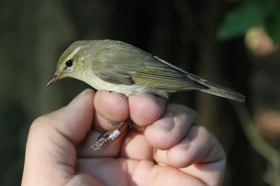 Green Warbler, ringed on 10th June in Jeseniky Mts, Czech republic